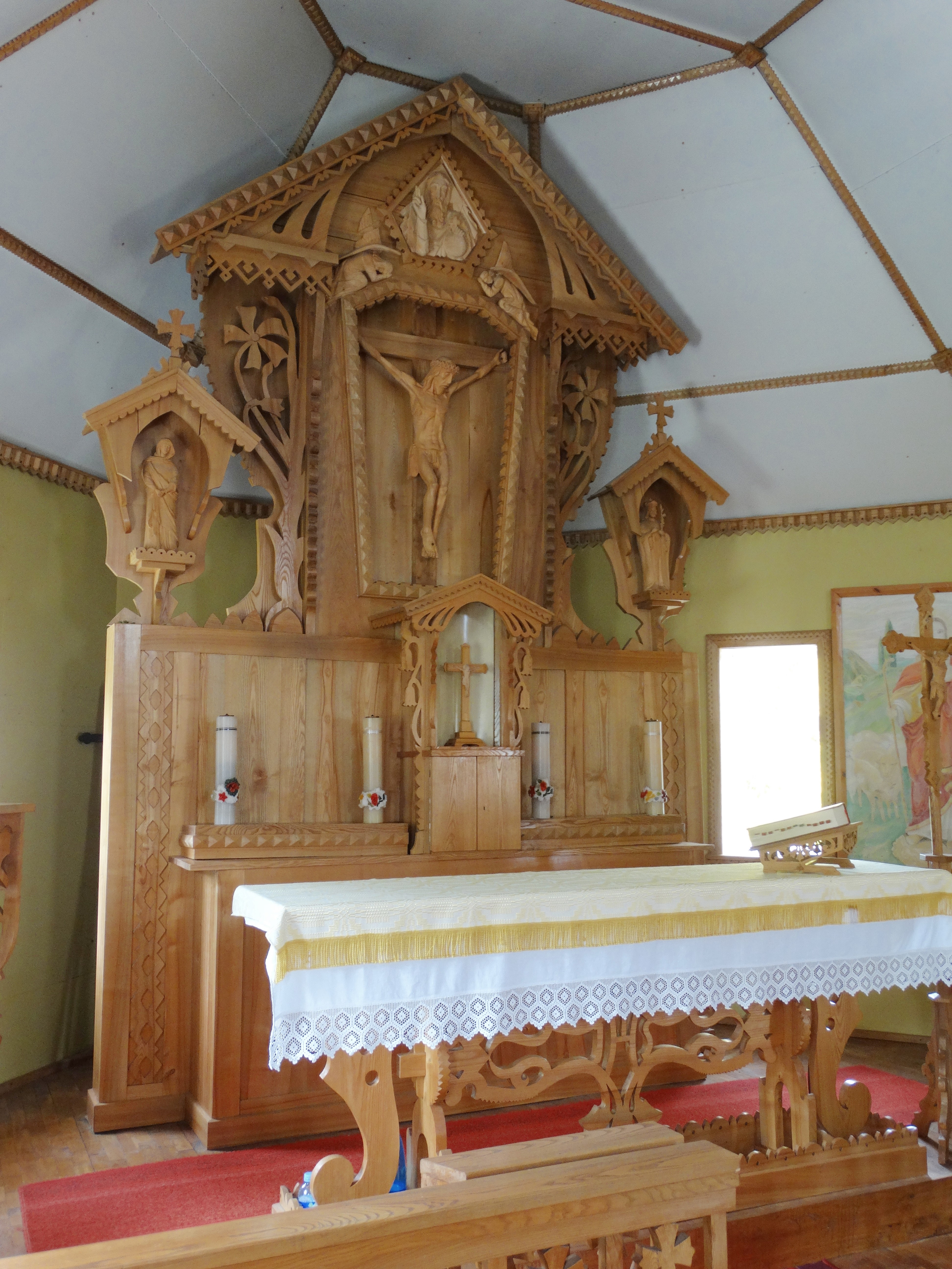 Altar, Church of Virgin Mary of Sorrows, Gedžiūnėliai, Ignalina district, Lithuania